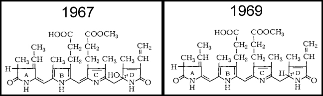 Rudiger syntheses